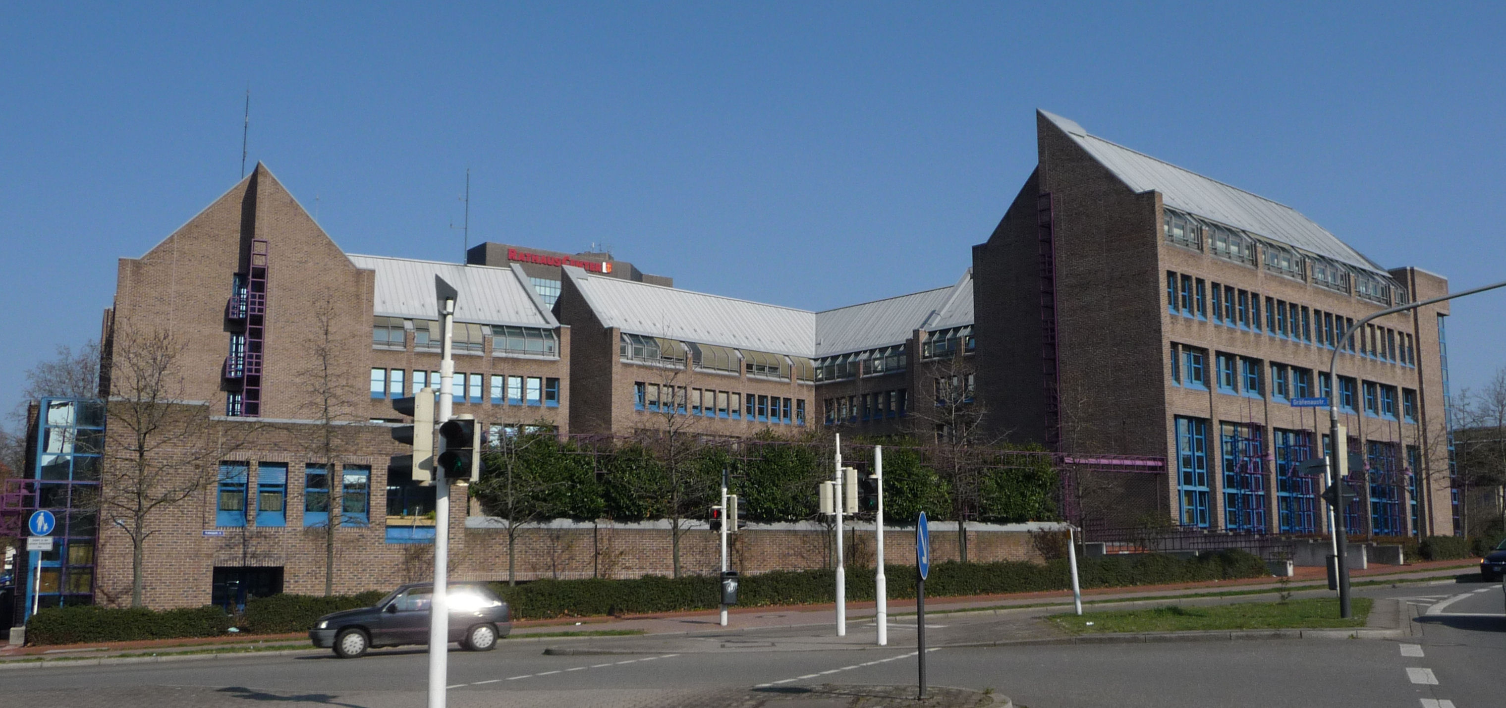 building in Ludwigshafen, Germany